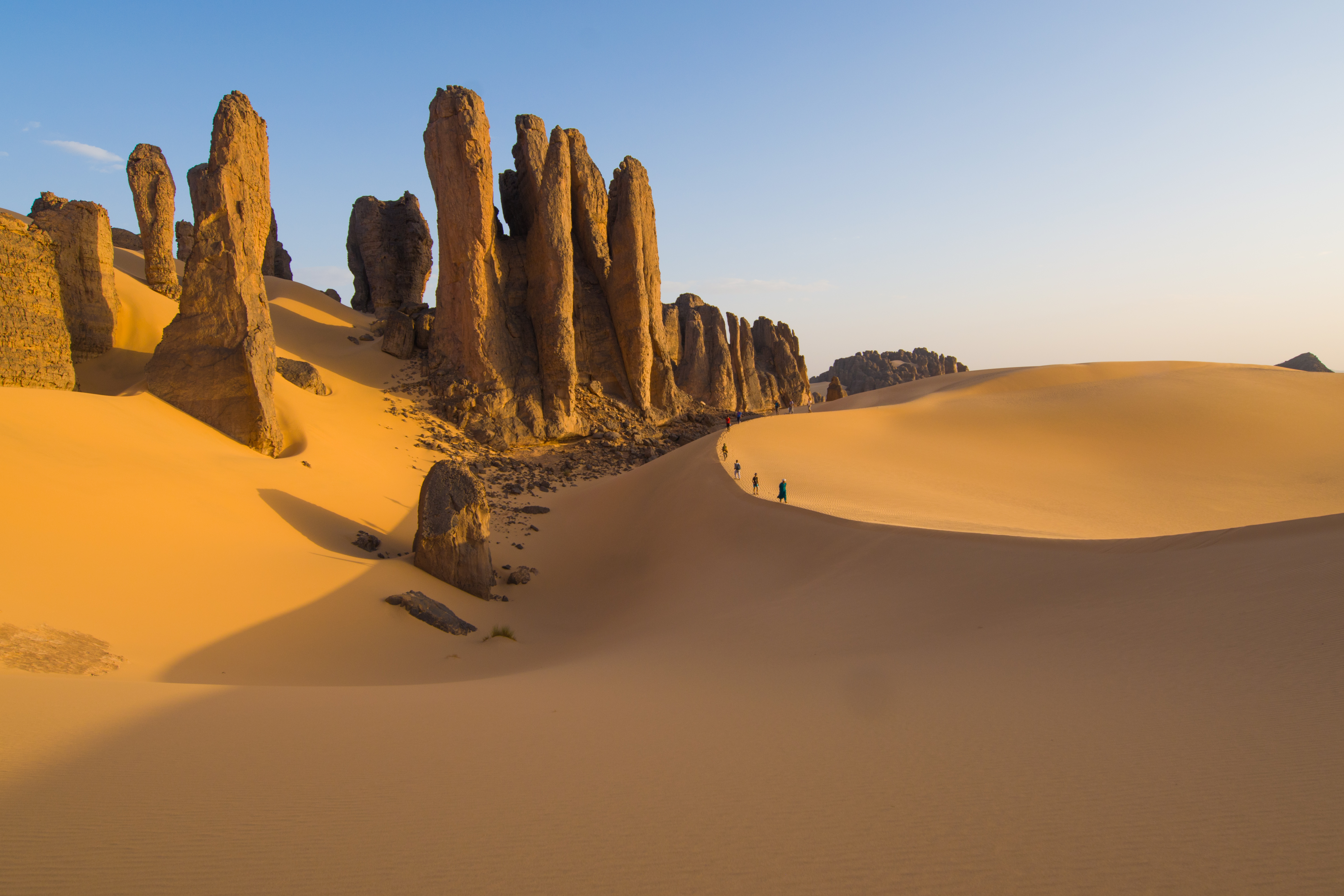 Hoggar, Tamanrasset National Reserve